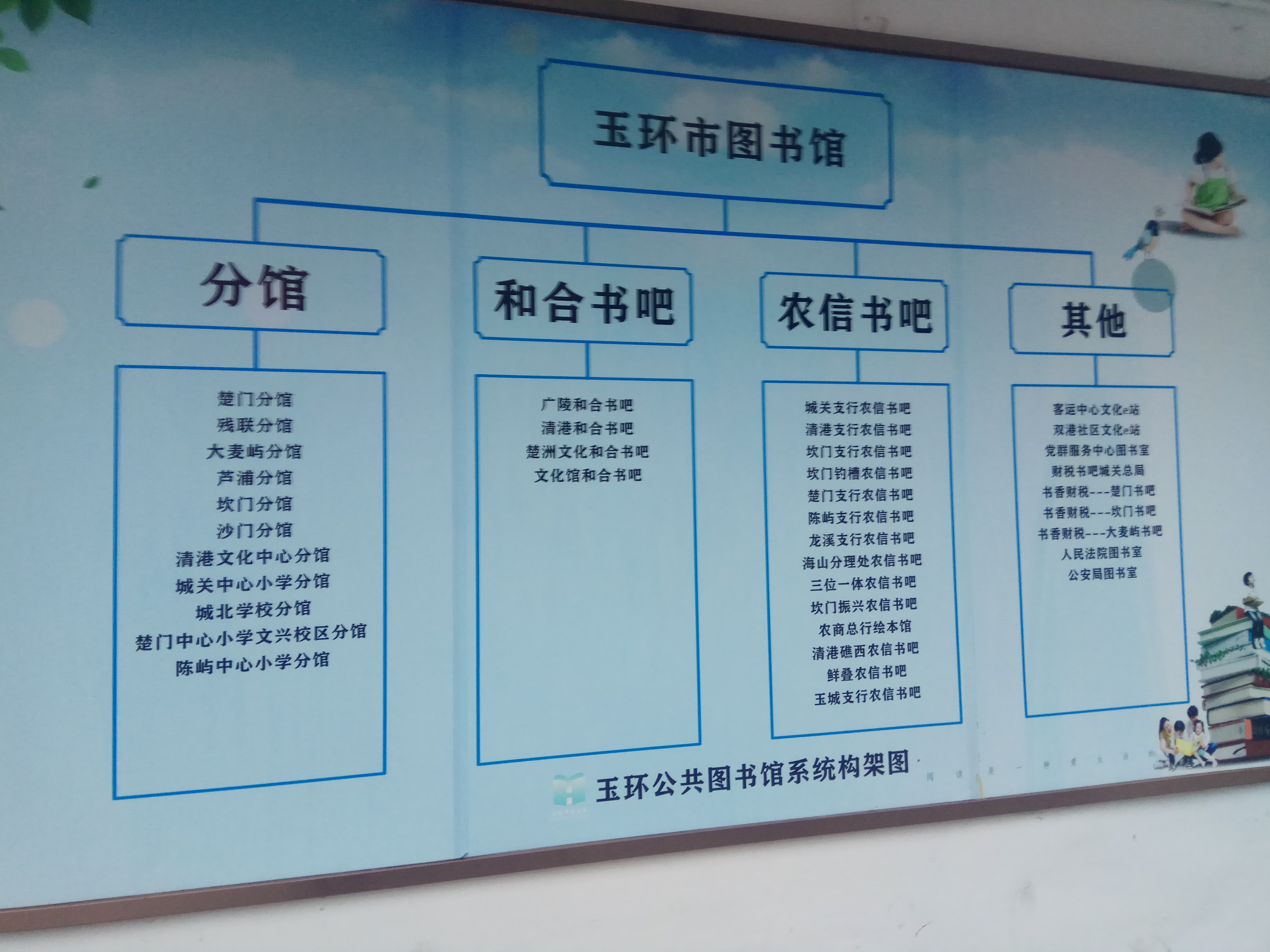 Yuhuan Library, Yuhuan City, Zhejiang, China-7